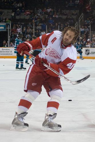 Henrik Zetterberg in 2008 pre-game warm up.